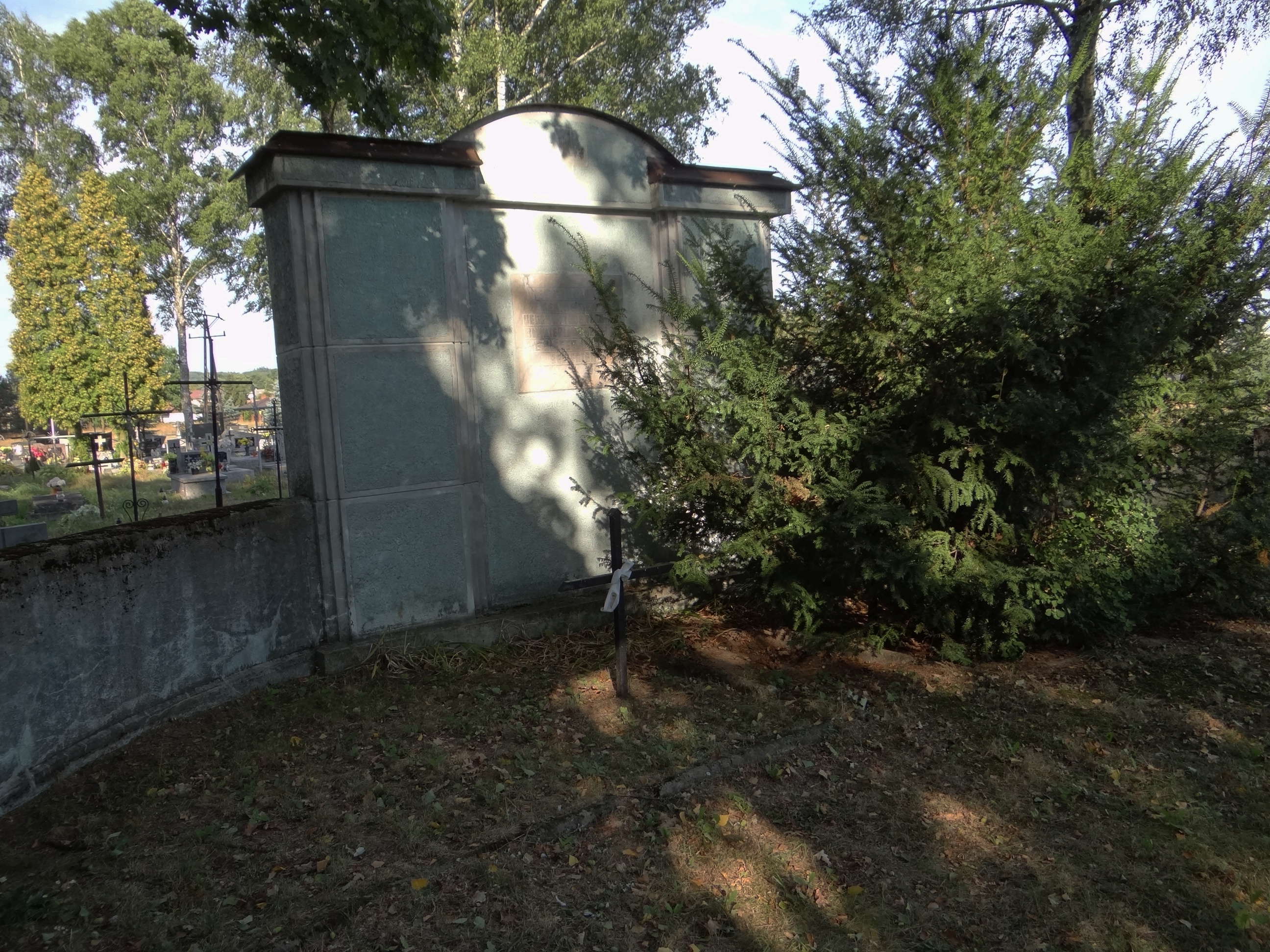 World War I Cemetery nr 253 in Żabno